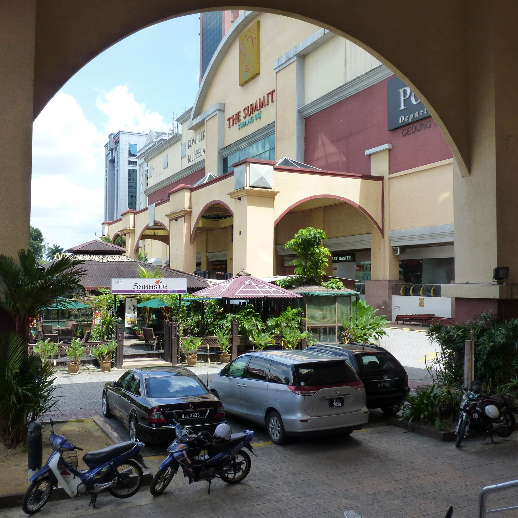 Summit USJ shopping mall in Feb 2011.